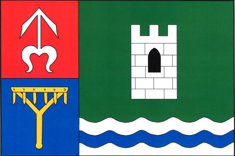 Flag of Senohraby, Praha-východ District